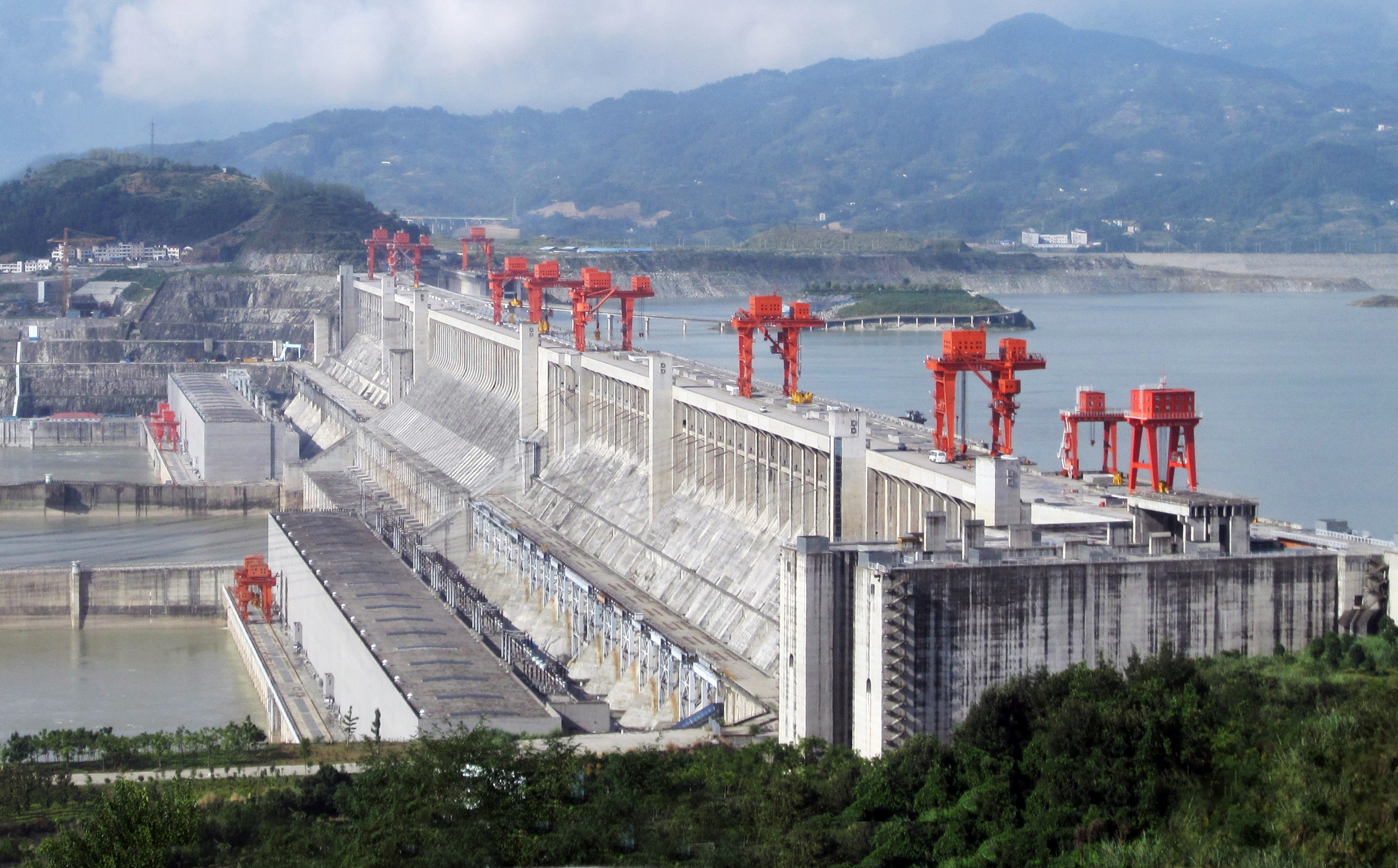 The Three Gorges Dam on the Yangtze River, China.